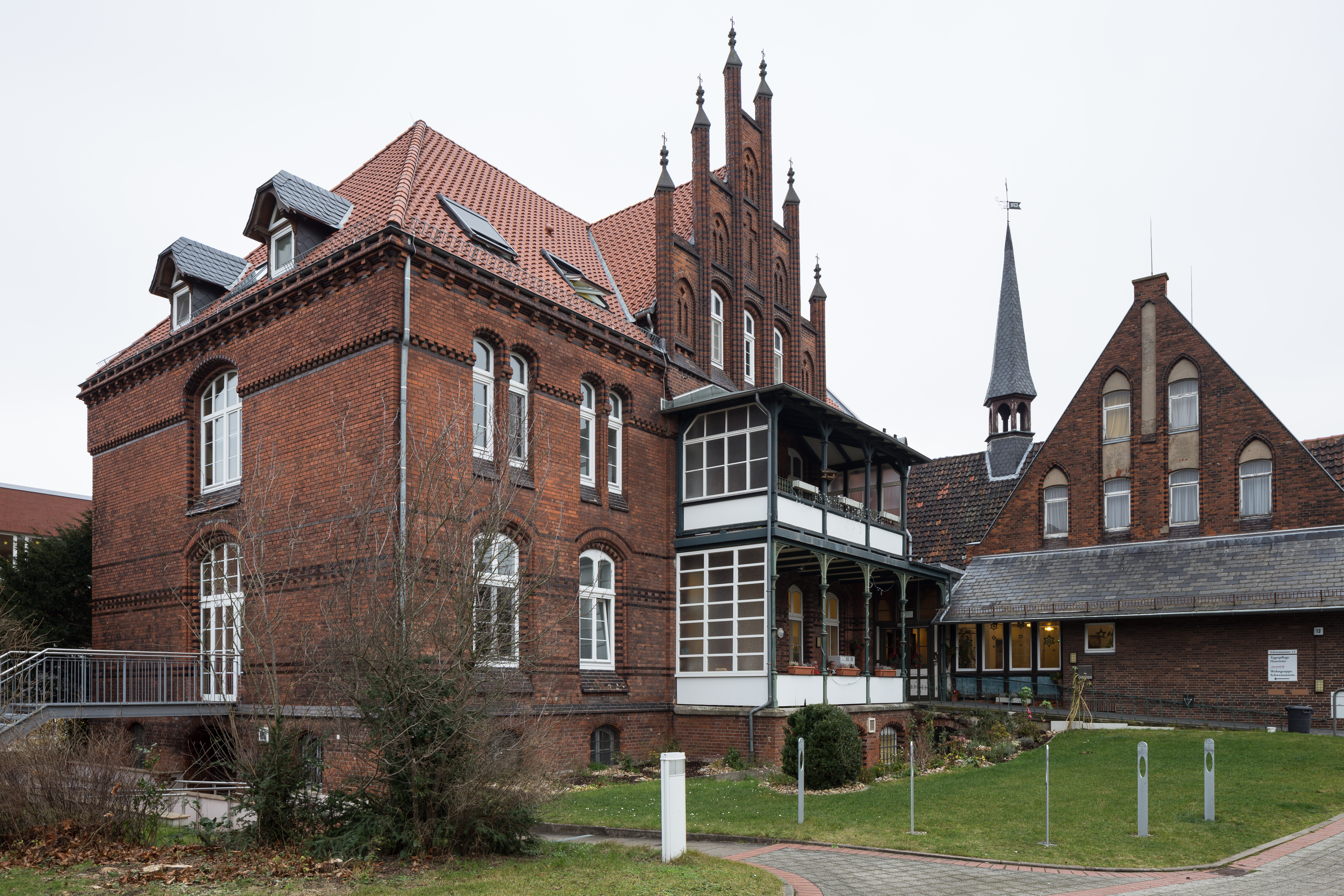 Alt-Bethesda, care home building located at Schwemannstrasse in Kirchrode quarter of Hannover, Germany.